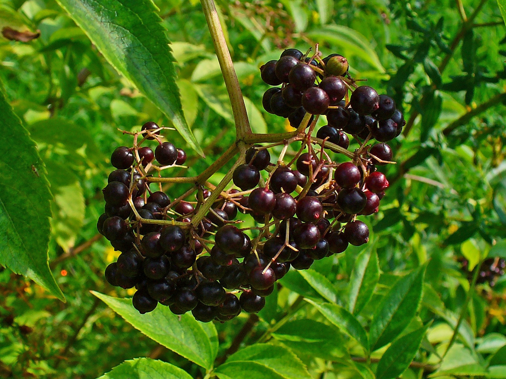 Sambucus canadensis, Adoxaceae, American Elderberry, infrutescence.